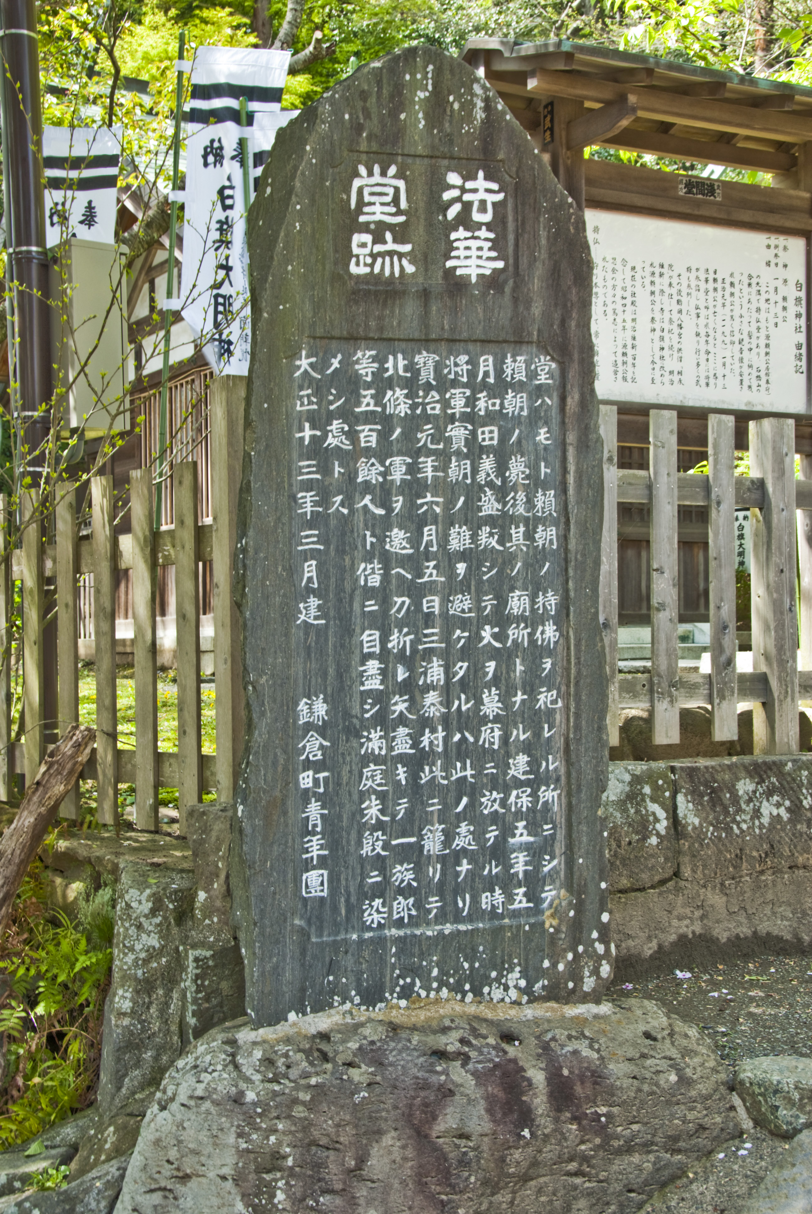 The stele on the spot where the last incarnation of Minamoto no Yoritomo's Hokke-dō used to stand in Kamakura's Nishi Mikado neighborhood.